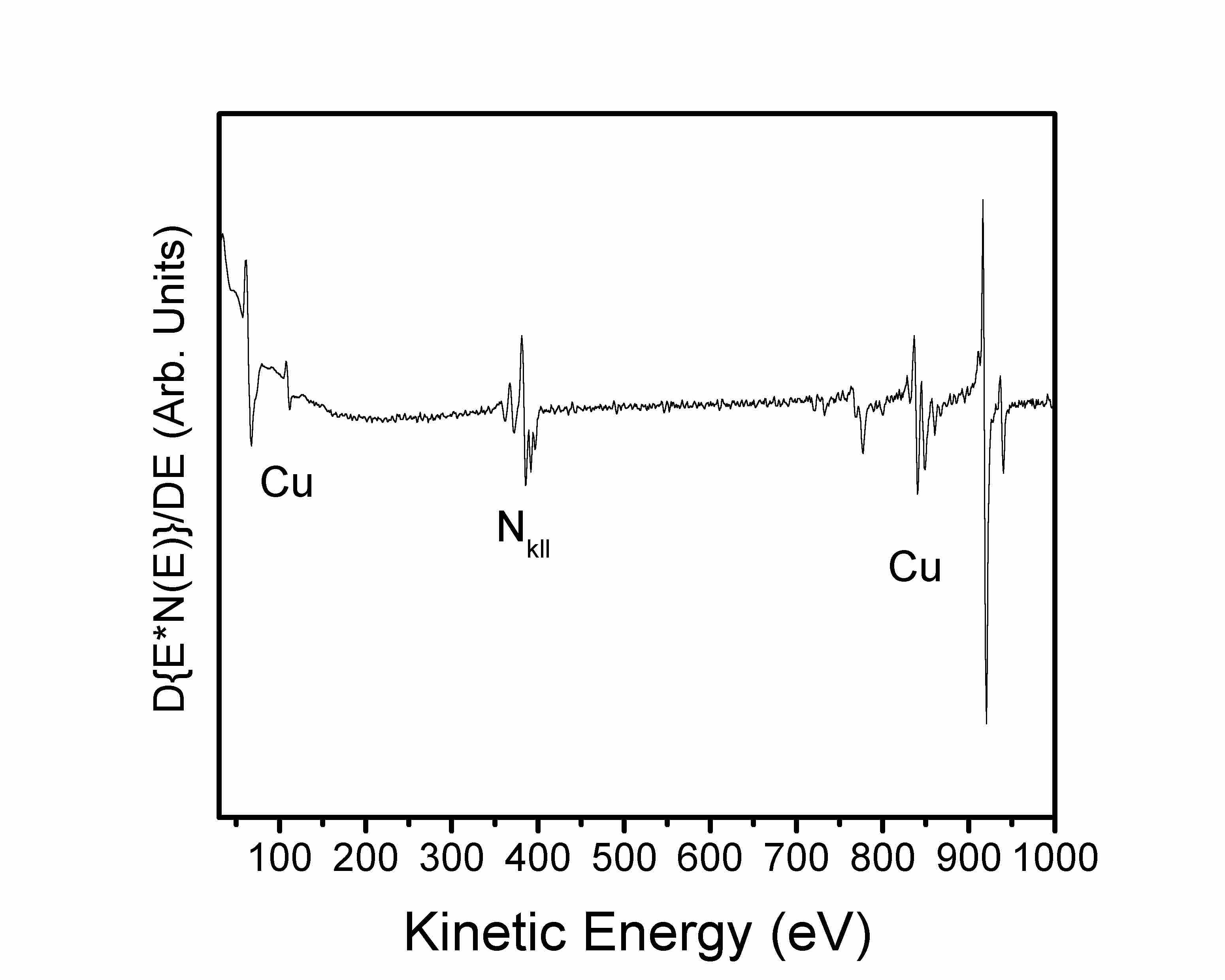 Auger spectrum of copper nitride films in derived mode. The film stoichiometry is Cu3N. The film was growth by laser ablation of a copper target in N2 enviroment at PN=120 mTorr.